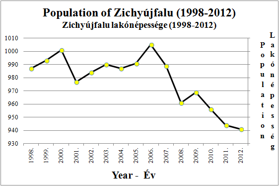 Zichyújfalu's population (1998-2012). Reference of Datas: Hungarian Central Statistical Office